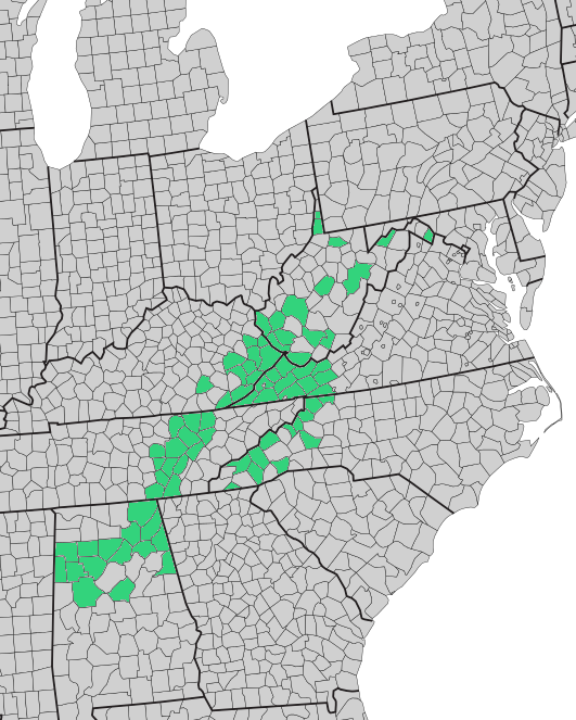 This map shows the 80 counties that were included in the study of absentee land ownership in Appalachia by the Appalachian Land Ownership Task Force which was funded by the Appalachian Regional Commission and published in 1982.